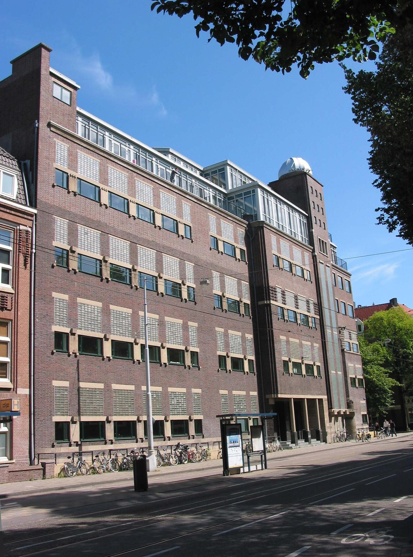 Former Vrije Universiteit laboratory, De Lairessestraat 176-180 (from right to left). 1932-1933 (construction), later altered.